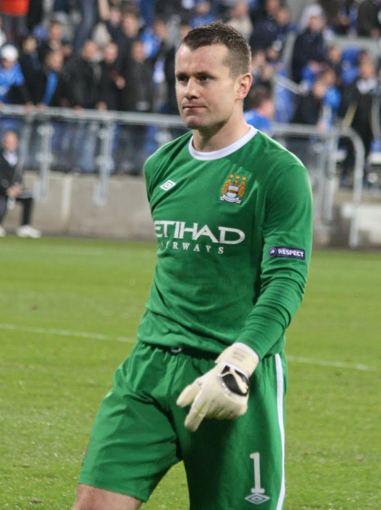 Shay Given (Manchester City) against Lech Poznan.